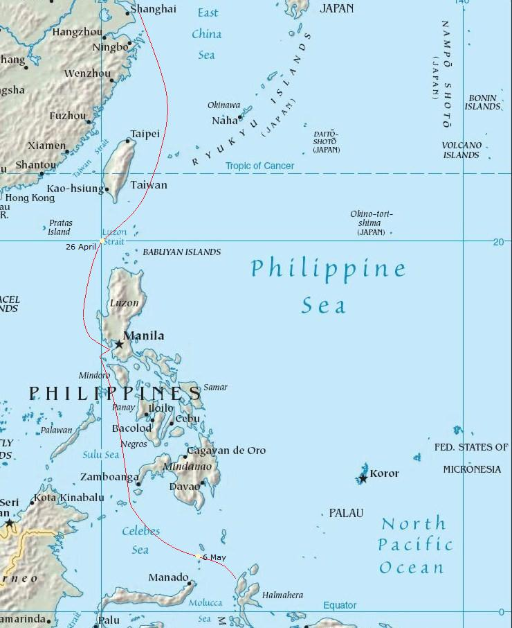 May showing the route of the Japanese Take Ichi convoy and the location of the United States submarine attacks on the convoy. Convoy route is from Parillo, Mark P. (1993). The Japanese Merchant Marine in World War II. Annapolis: Naval Institute Press. ISBN 1557506779. Page 140. From CIA World Factbook